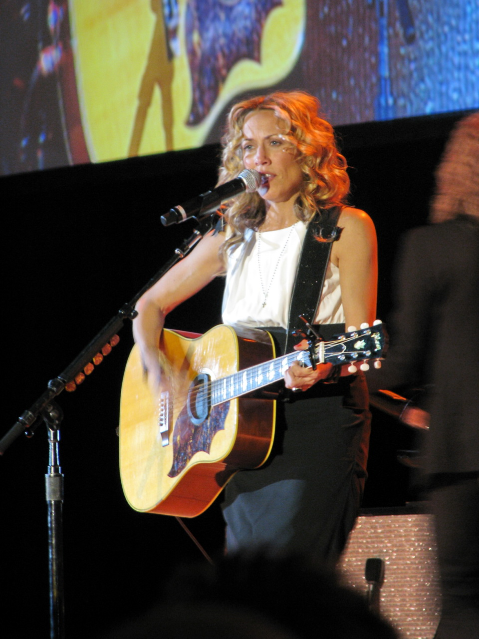 Sheryl Crow performing at the Midwestern Inaugural Ball